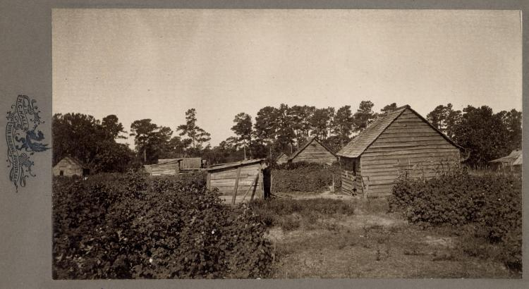 View of plantation slave houses, South Carolina Low Country. Published by H. C. Hall, Dyer Building, Augusta, Georgia. Photograph courtesy of Ulrich Bonnell Phillips Collection, Yale University Manuscripts & Archives Digital Images Database.